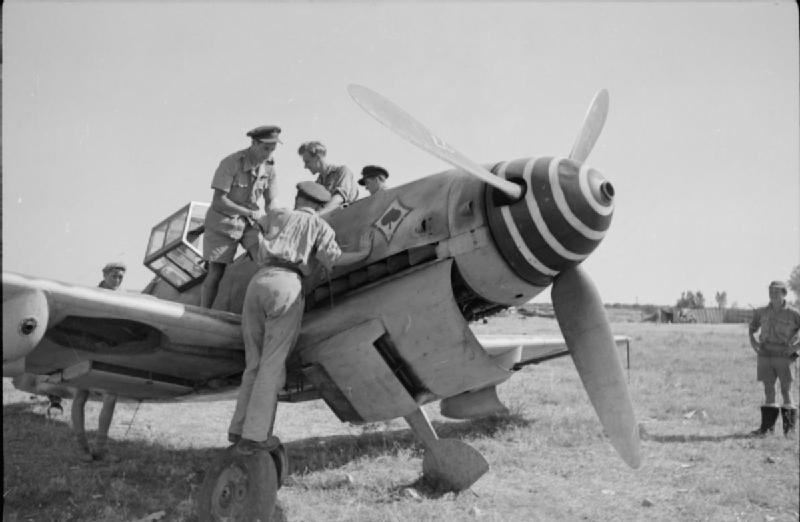 Royal Air Force- Italy, the Balkans and South-east Europe, 1942-1945. Pilots of No. 43 Squadron RAF inspect an abandoned Messerschmitt Bf 109G of 6/JG53 at Comiso, Sicily.